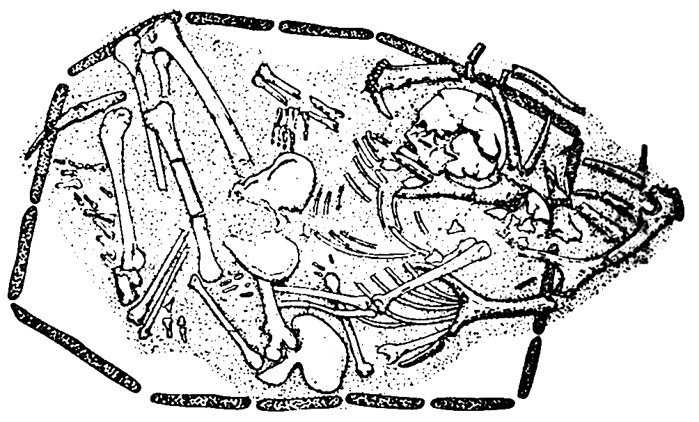 Maglemosian burial of Téviec (Morbihan, France)